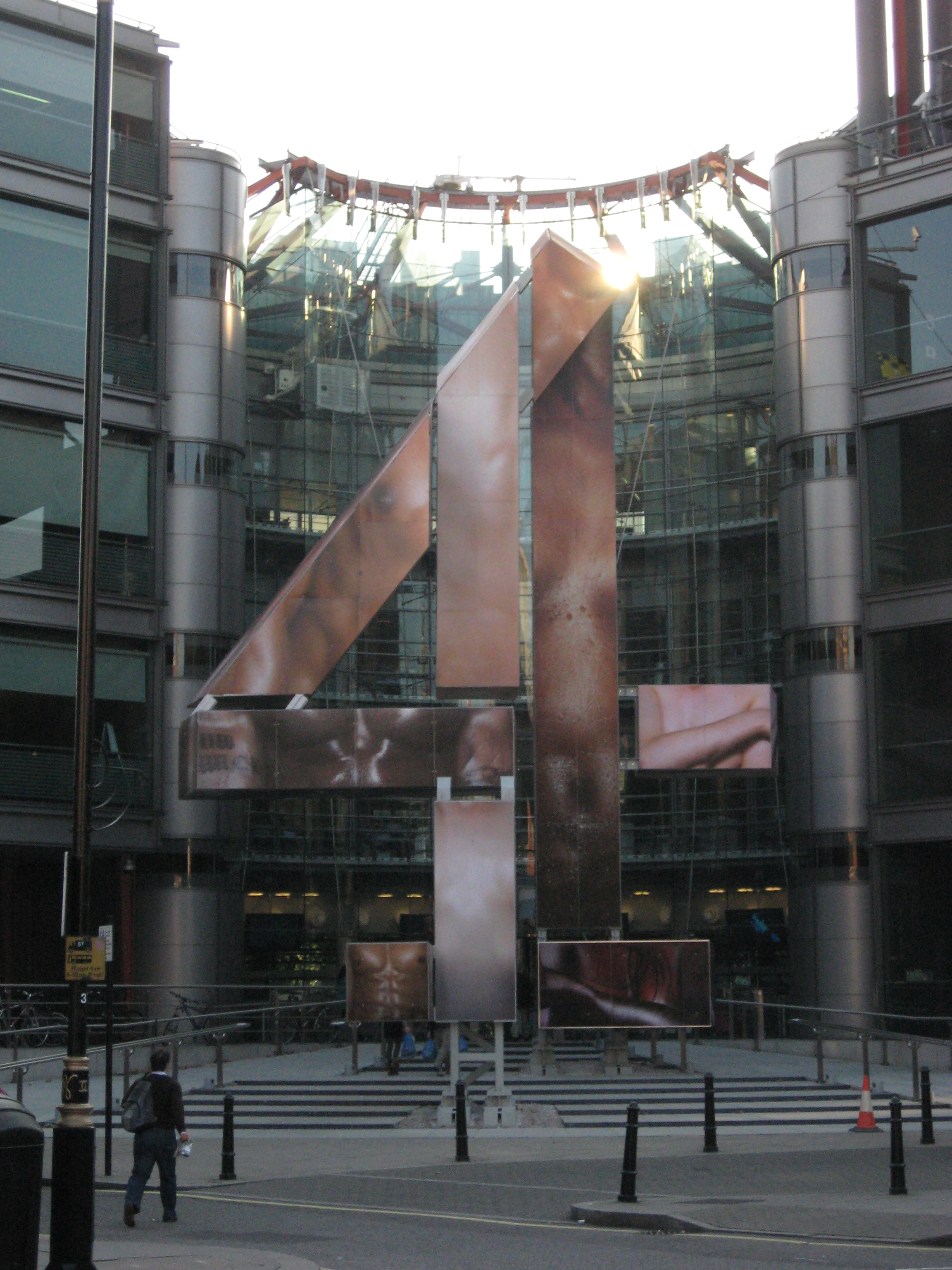 A number 4 from a building.